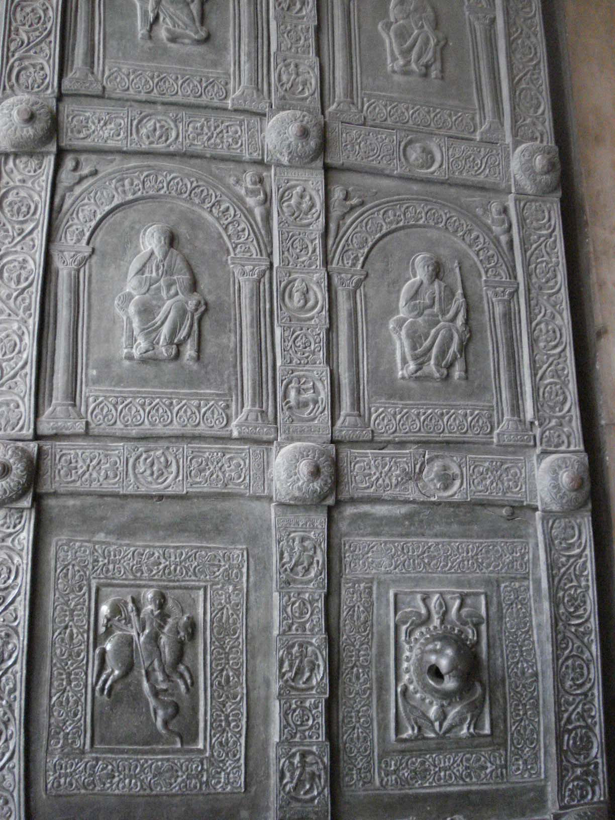 Monreale-nortern portal. Autor Barisano de Trani, 1186.